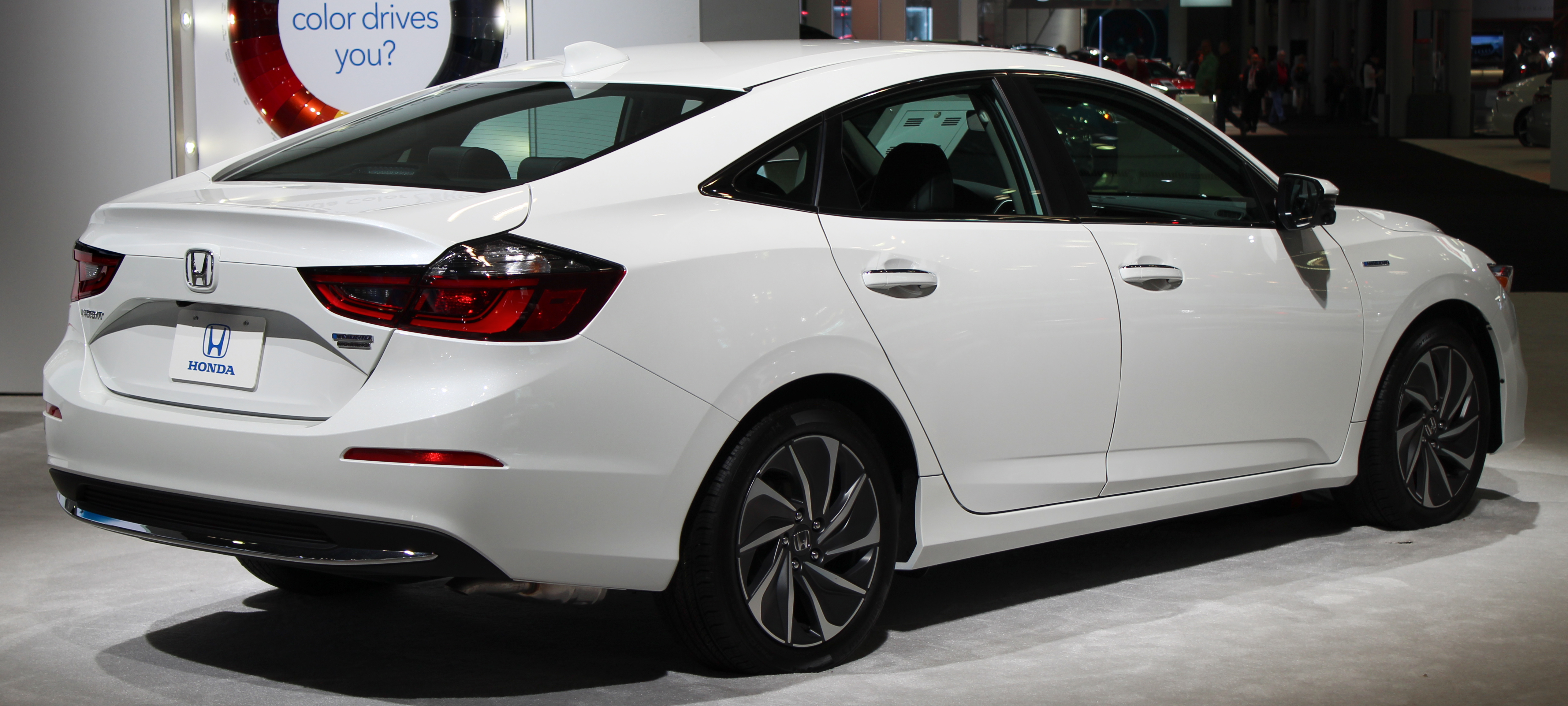 A 2019 Honda Insight Hybrid photographed during the 2019 New York International Auto Show, in Hudson Yards, Manhattan, NYC